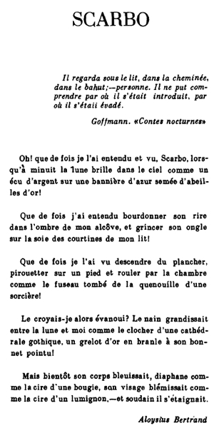 poem from Aloysius Bertrand